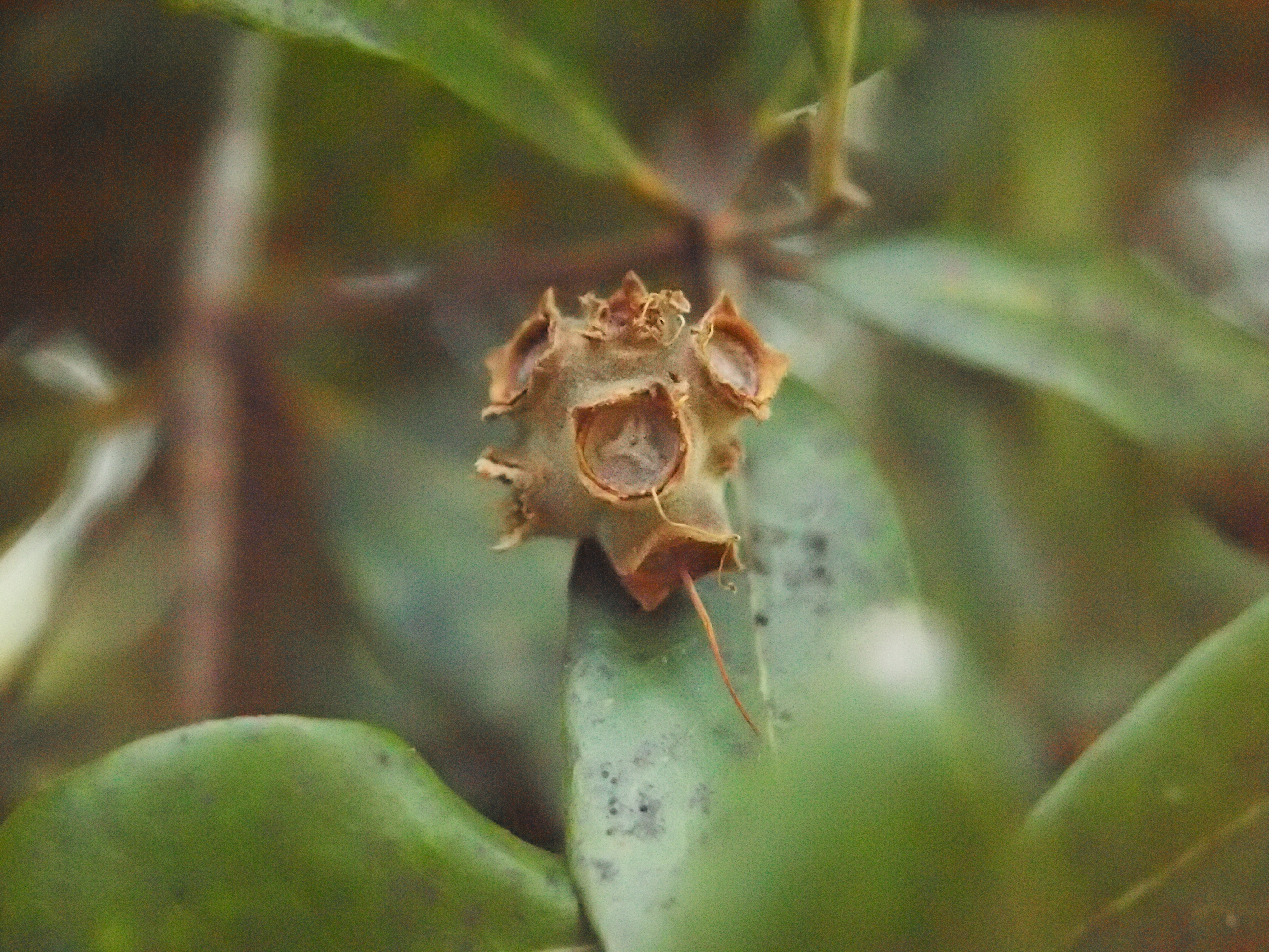 Syncarpia glomulifera subsp. glomulifera fruit